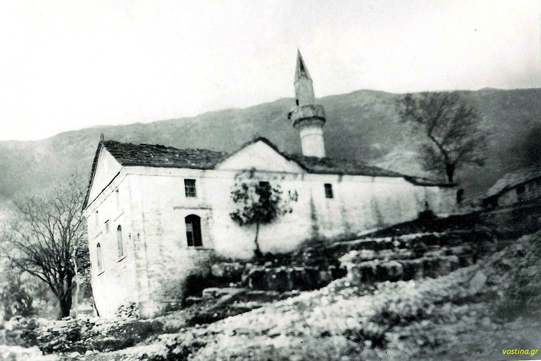 Voshtina Mosque (eastern side) with the Buzova mountains in the background. Circa 1910. Photographer: Yeorgios Pantazis.